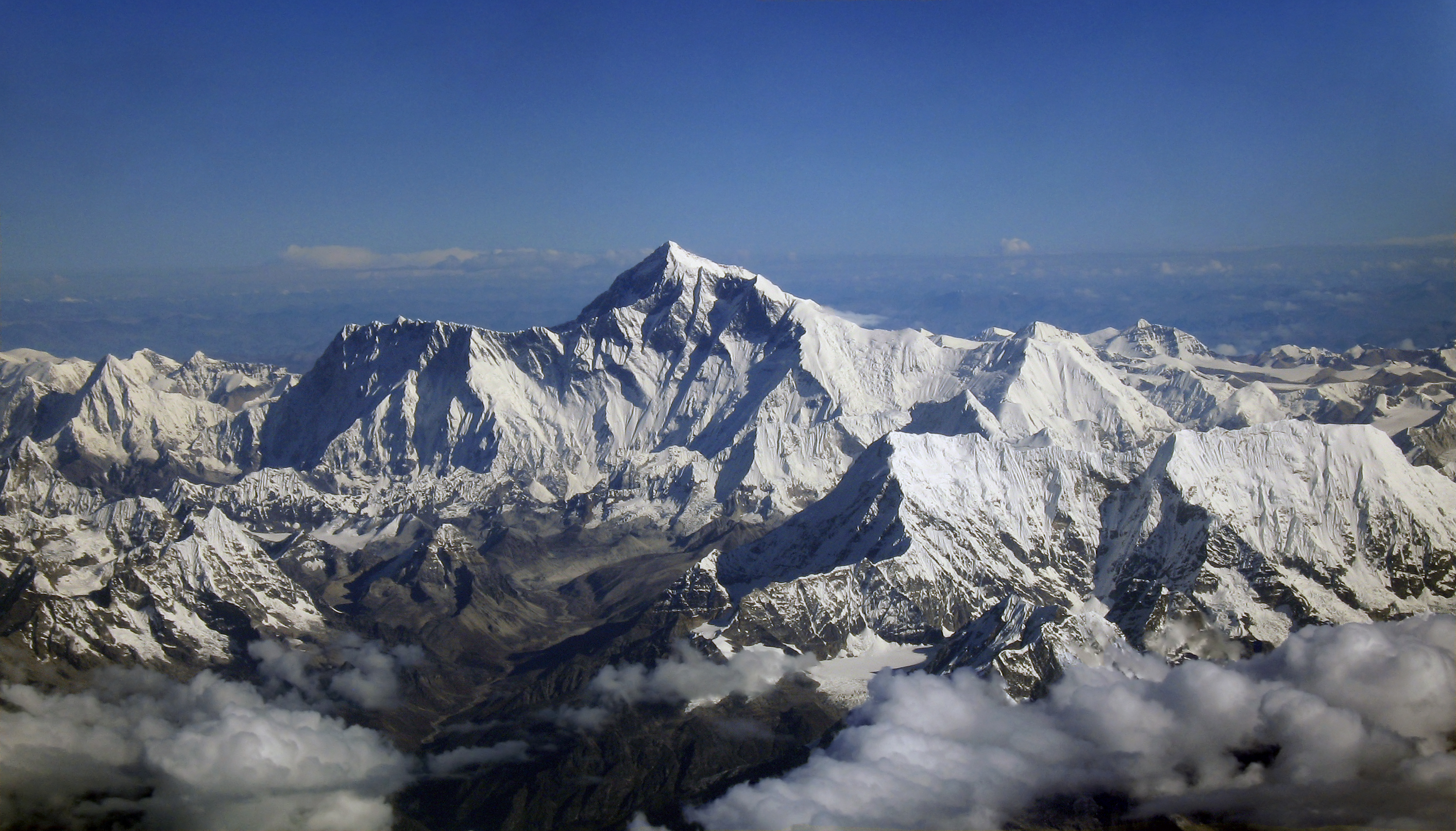 Mount Everest as seen from the aircraft of Drukair in Bhutan. The aircraft is south of the mountains, facing north.